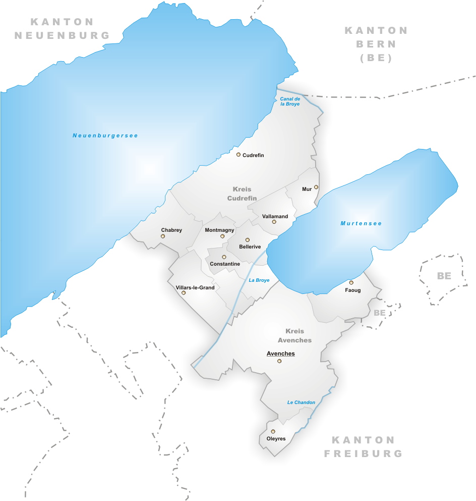 Municipalities of District Avenches until 2007